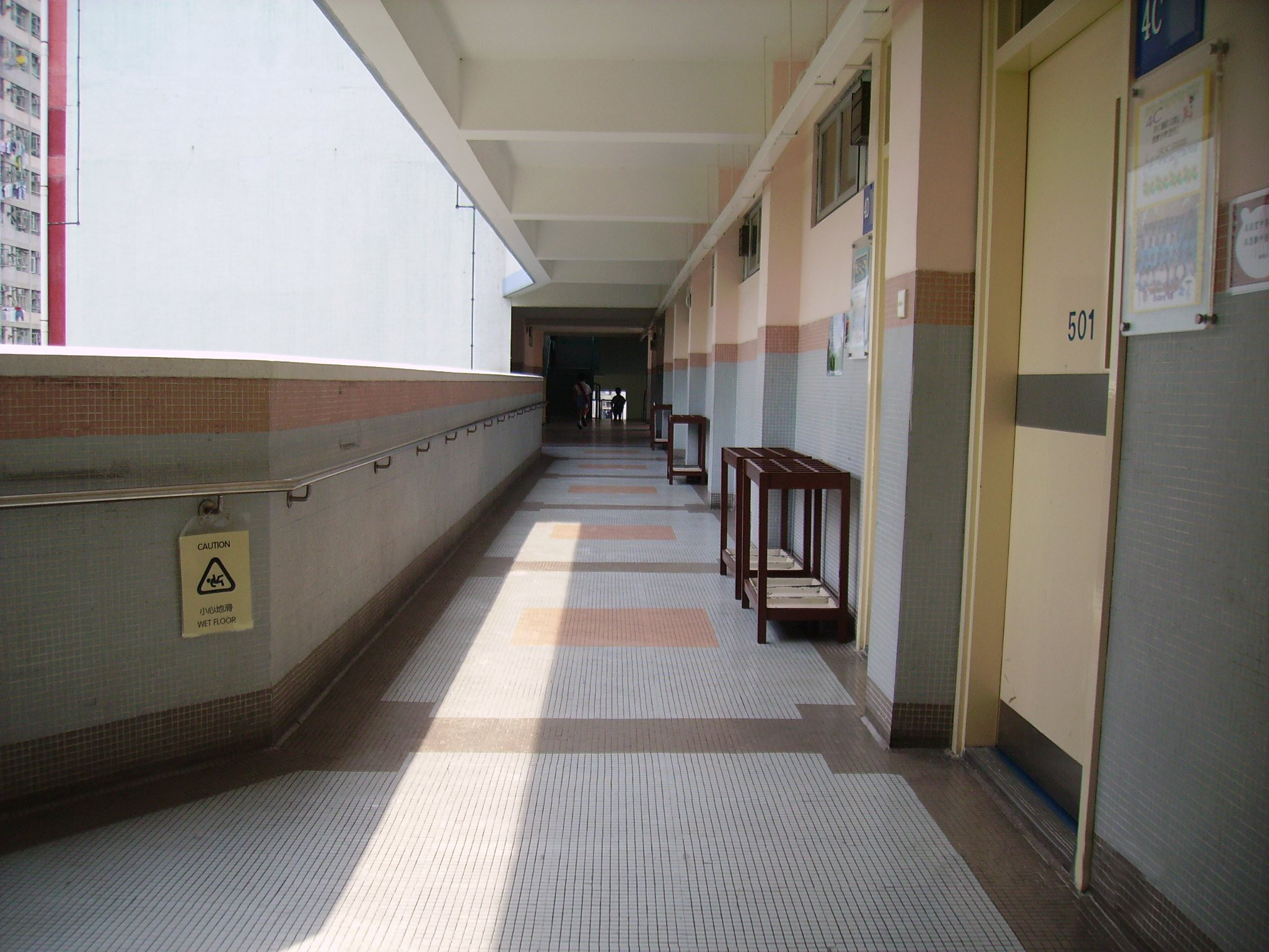 S.K.H. Yuen Chen Maun Chen Jubilee Primary School 5th floor 粵語: 聖公會阮鄭夢芹銀禧小學五樓 粵語: 聖公會阮鄭夢芹銀禧小學五樓